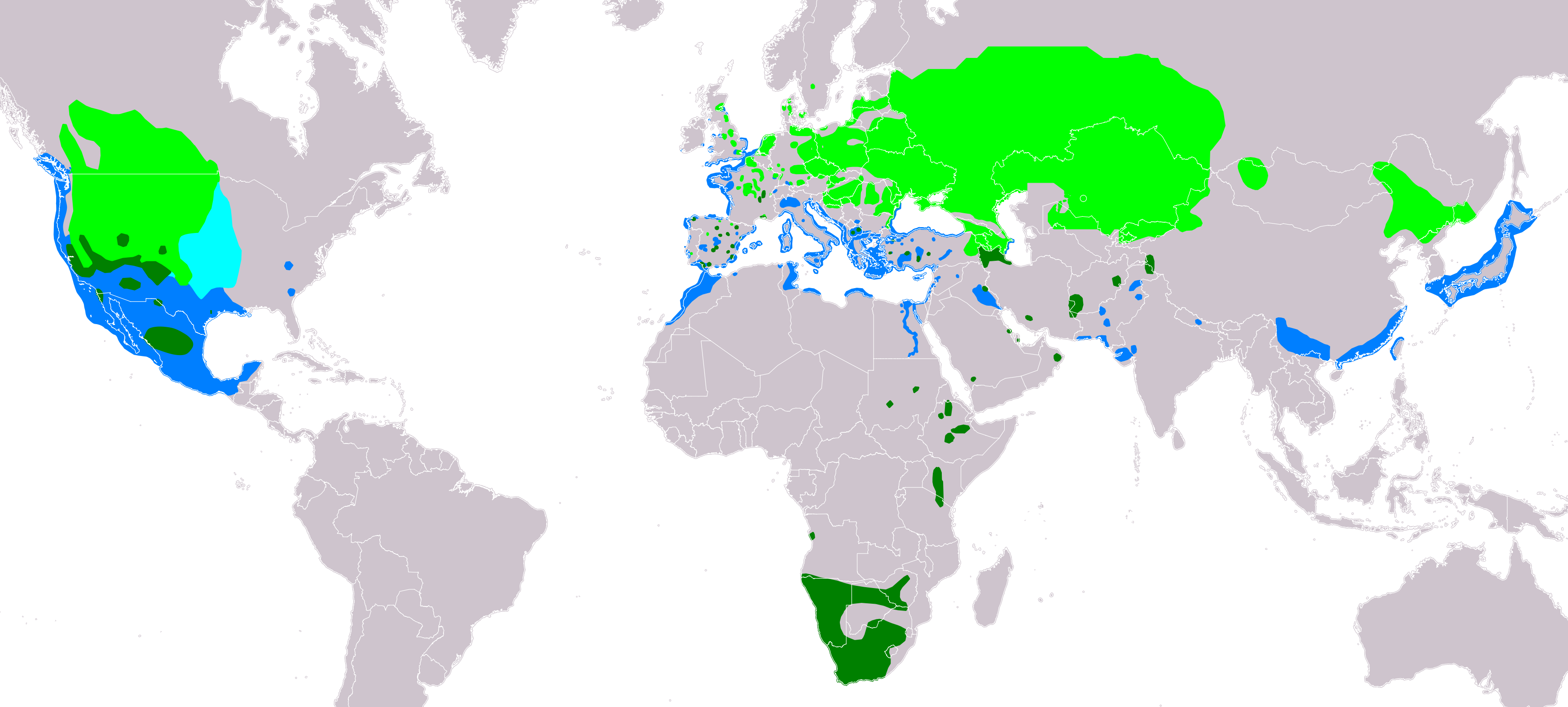 Distribution map of black-necked grebe (Podiceps nigricollis) according to IUCN version 2019-2 ; key: Legend: Extant, breeding (#00FF00), Extant, resident (#008000), Extant, passage (#00FFFF), Extant, non-breeding (#007FFF)